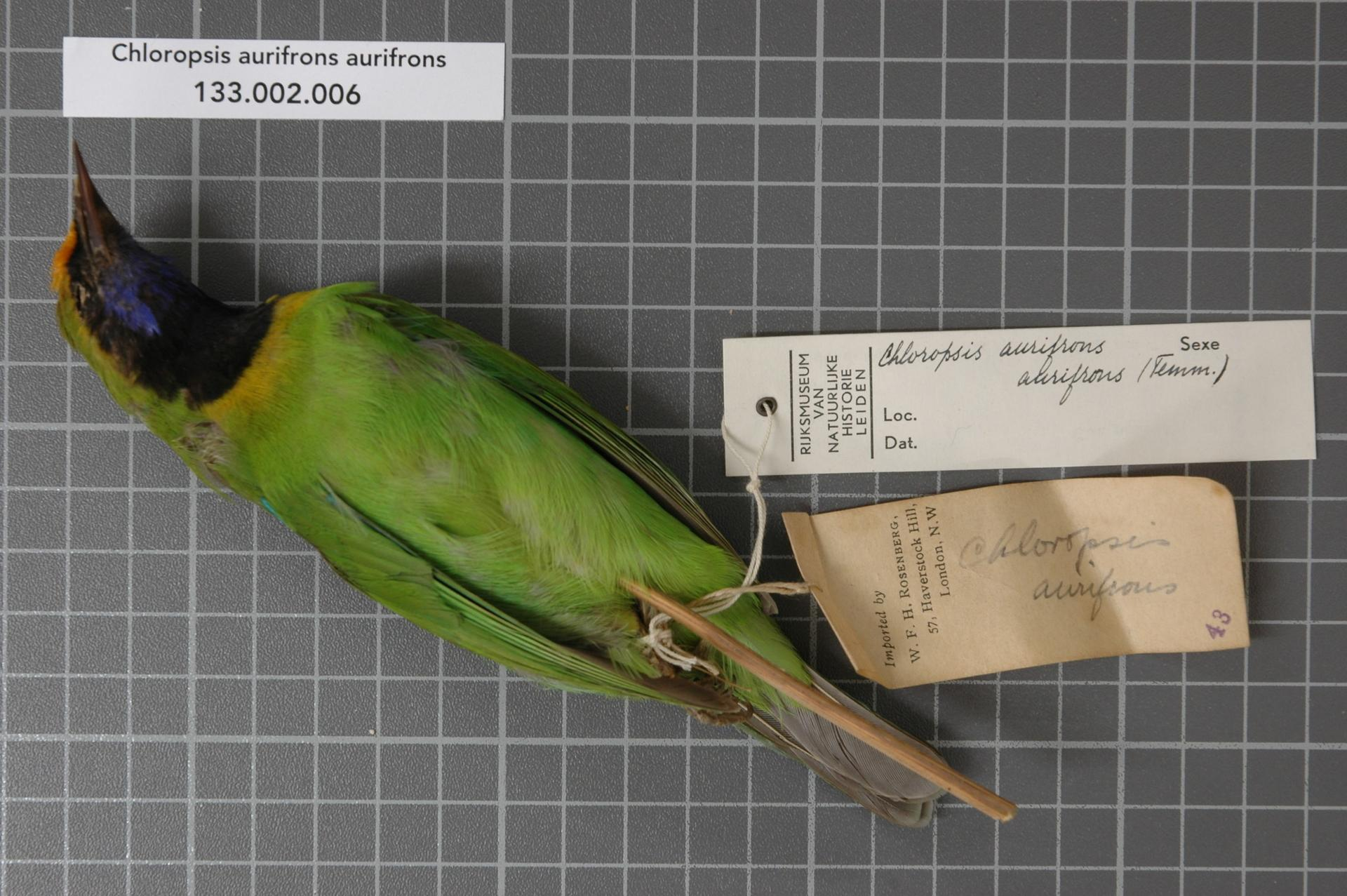 Chloropsis aurifrons aurifrons (Temminck, 1829)